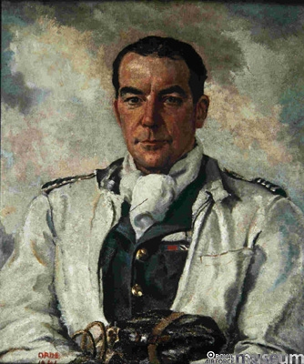 Harry Broadhurst, colour oil painting by Cuthbert Orde, 1941